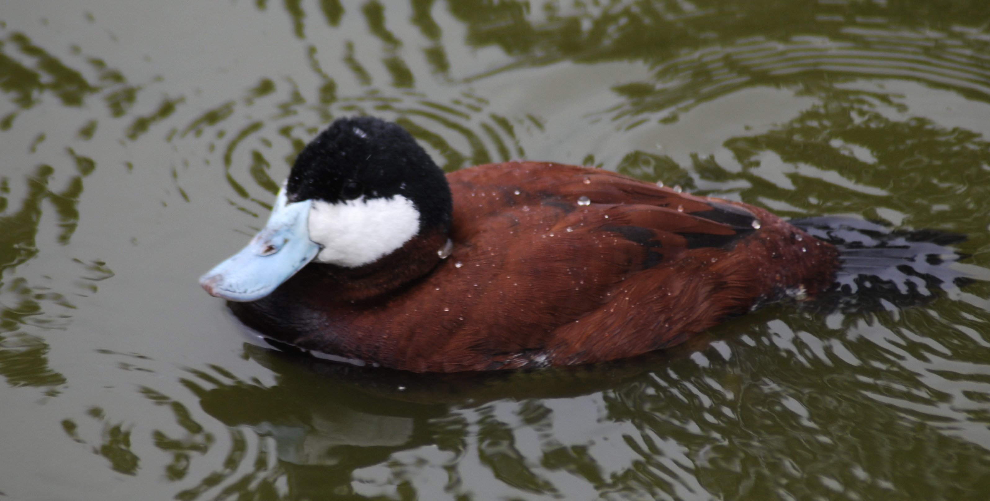 Ruddy Duck (Oxyura jamaicensis)